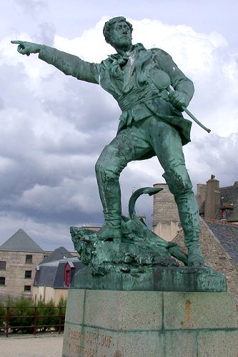 Statue of Surcouf in Saint-Malo